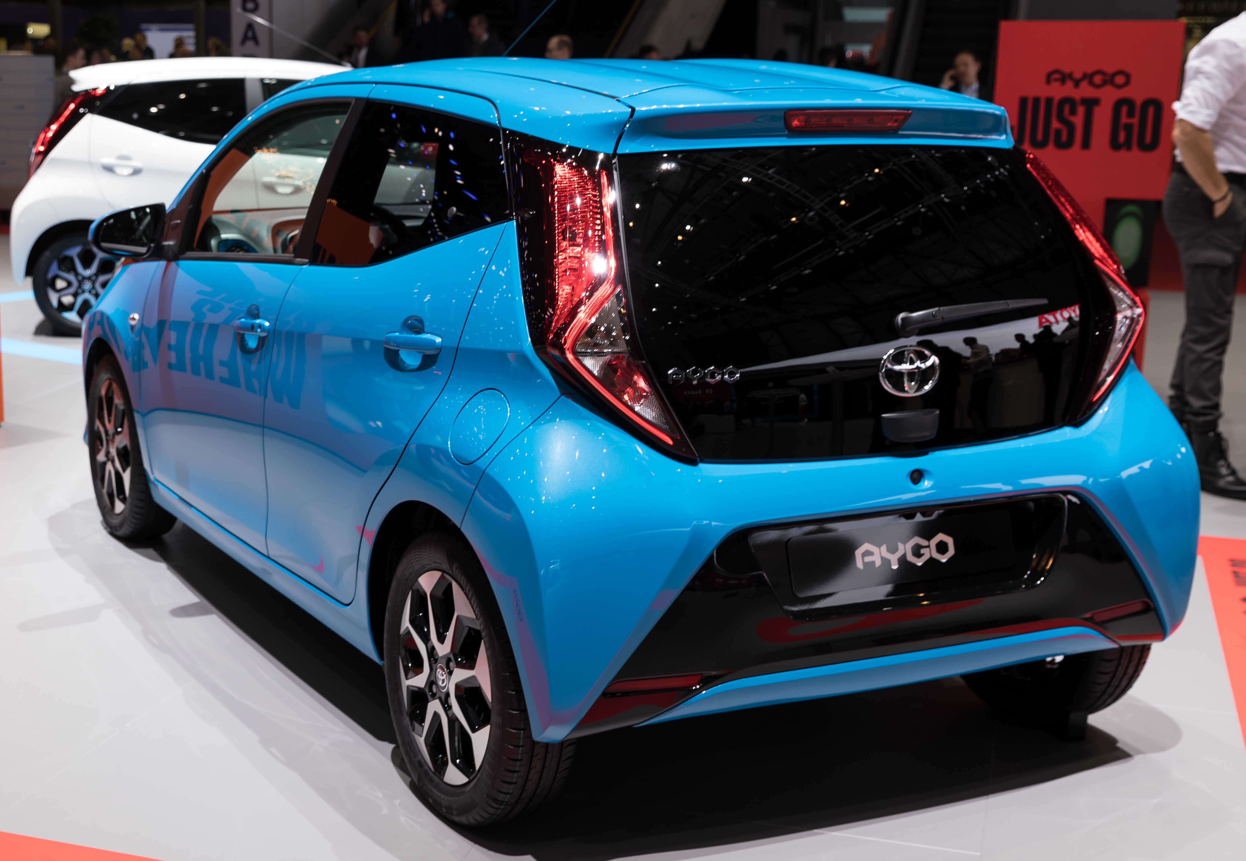 Geneva International Motor Show 2018